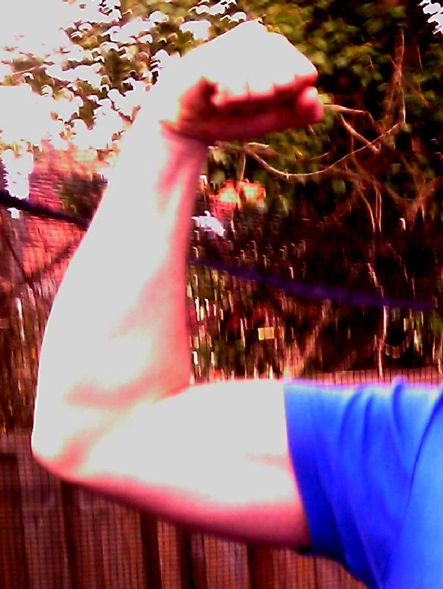 My arm - taken myself with photo-camera.